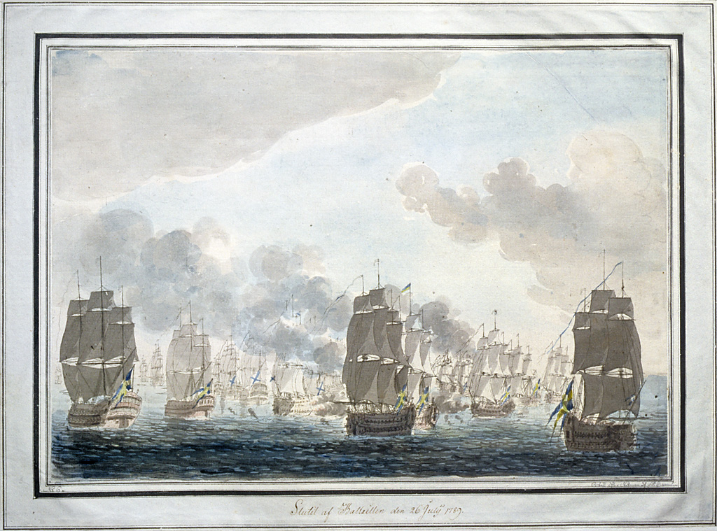 The image is part of a series illustrating a naval battle at the southern point of the island of Öland in the Baltic Sea, fought in July 1789 in the war of 1788-1790 between Sweden and Russia. Persistent URL: Read more about the photo database (in english)